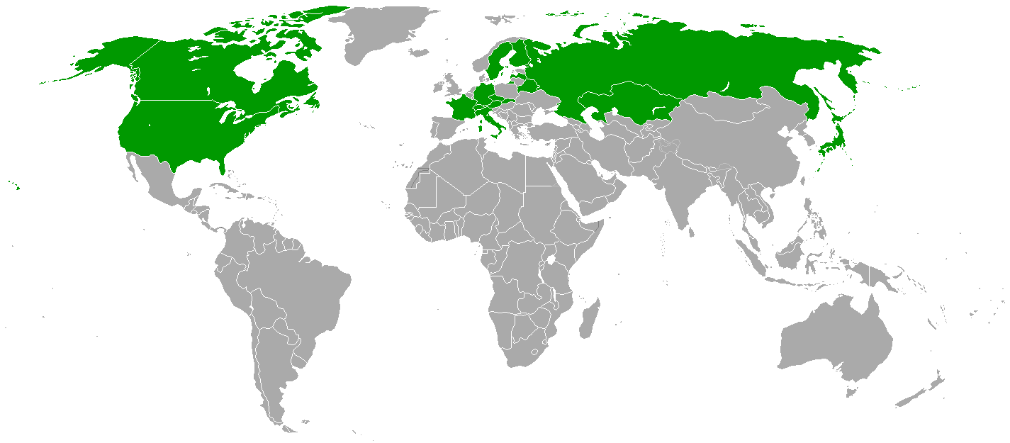 Countries participating in the 1998 IIHF World Championship.